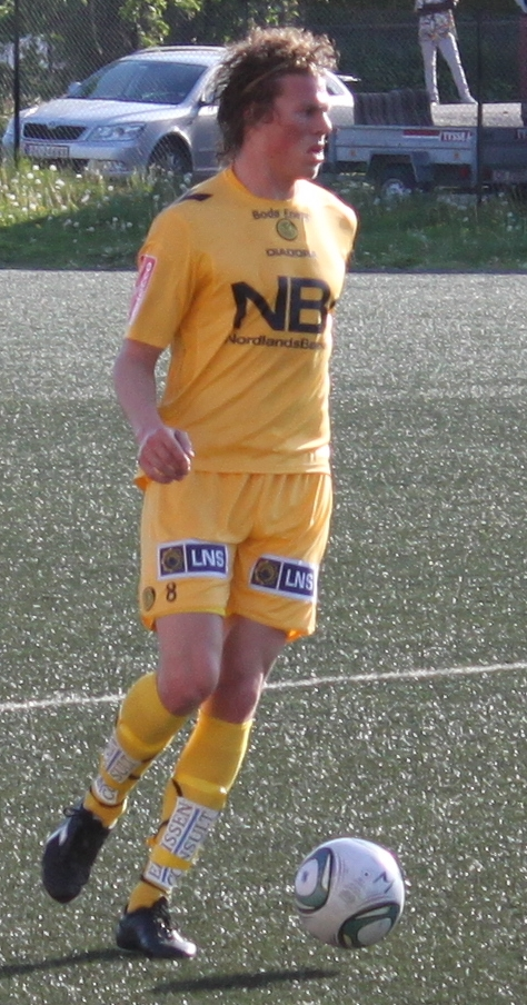 Michael Haukås playing for Bodø/Glimt against Strømmen on 5 June 2011.